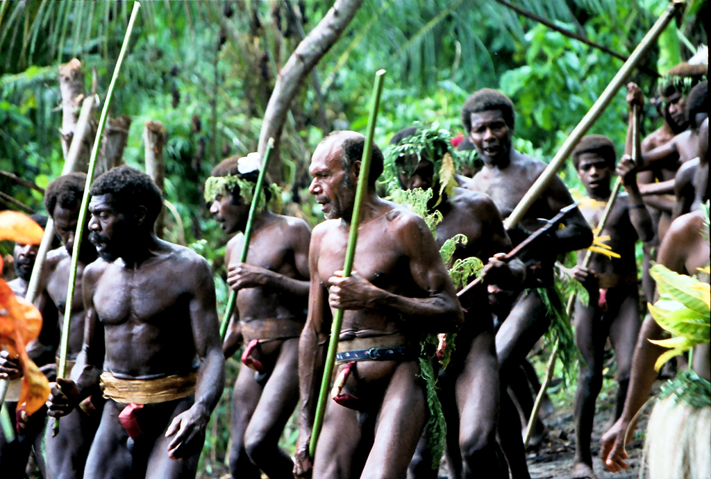 Pentecost Island had a yearly ritual where the men jump from a tower with vines attached to their legs. "The N'gol ceremony began centuries ago when a beaten woman ran away from her husband, Tamale. He found her hiding in a tall tree and called to her that if she came down he might beat her - but only a little. However if he had to get her she would be sorry. She refused. He climbed the tree and as he made his final grab, she leaped. In anguish at her death (or anger that he had missed her) Tamale jumped after her, not realising his wife had tied liana vines around her ankles and survived the fall." The men are wearing the traditional penis sheaths for the land diving ceremony, Pentecost Island Vanuatu 1992 [ Pentecost Island N'gol Ceremony] Vanuatu Web Page Pentecost Islands Ceremony Set